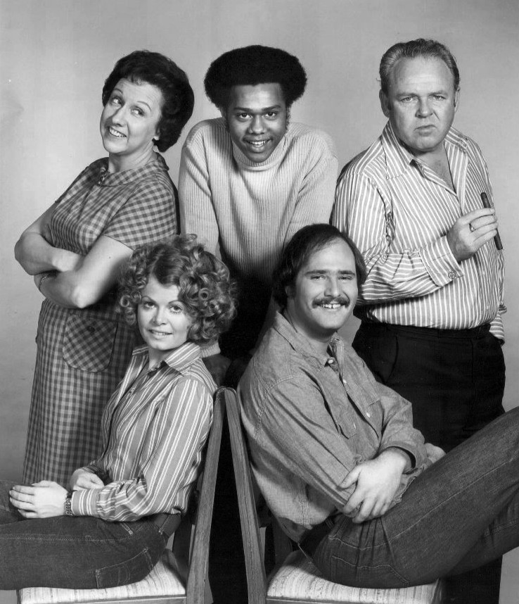 Photo of the cast of the television program All In the Family. Standing, from left: Jean Stapleton (Edith Bunker), Mike Evans (Lionel Jefferson), Carroll O'Connor (Archie Bunker). Seated: Sally Struthers (Gloria Bunker Stivic) and Rob Reiner (Mike Stivic).